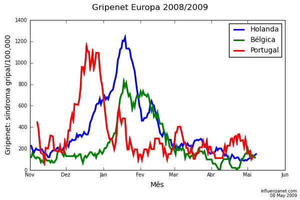 Incidence of Influenza like illness in the 2008-2009 season, data from the influenzanet system